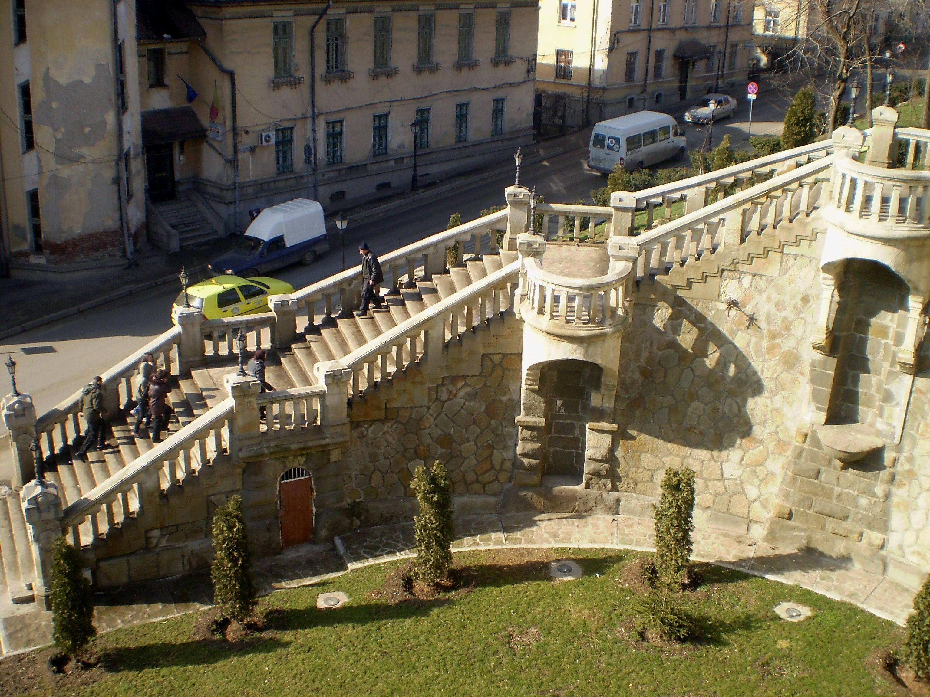 Yellow Ravine , former Elizabeth Esplanade , Iaşi ,RomaniaRomână: Râpa Galbenă , fosta Esplanadă Elisabeta , Iaşi , România